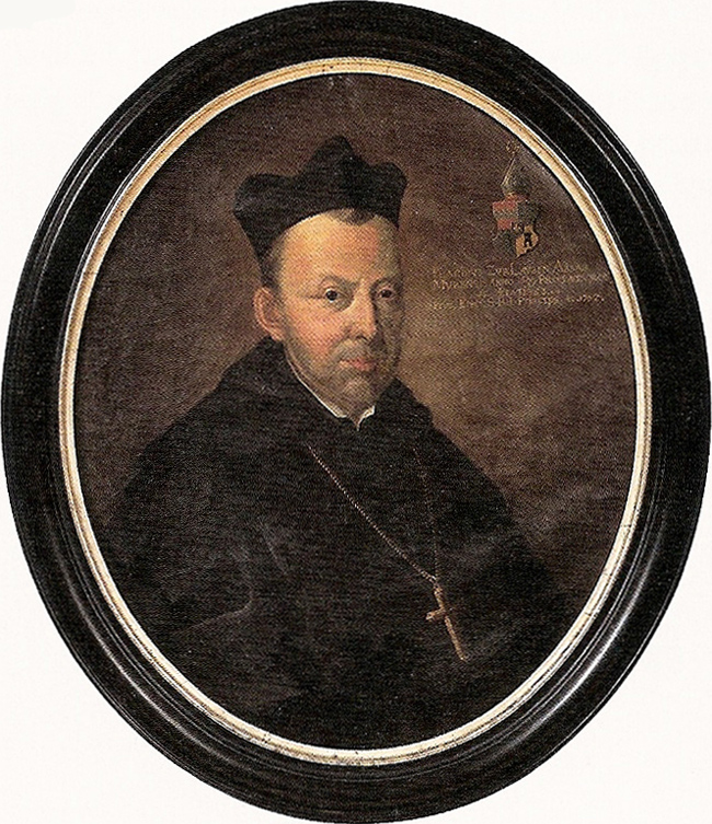 Plazidus Zurlauben, imperial abbot of Muri from 1684 to 1723